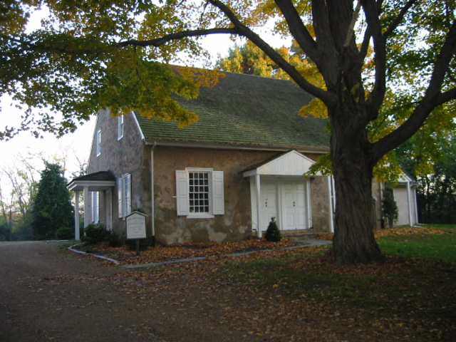 Picture of the Upper Dublin Friends Meeting House at Fort Washington and Meetinghouse Roads in Upper Dublin Township, Pennsylvania, USA.